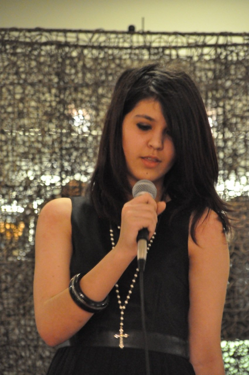 Carmel Buckingham, photographed by Lukáš Dvořák.